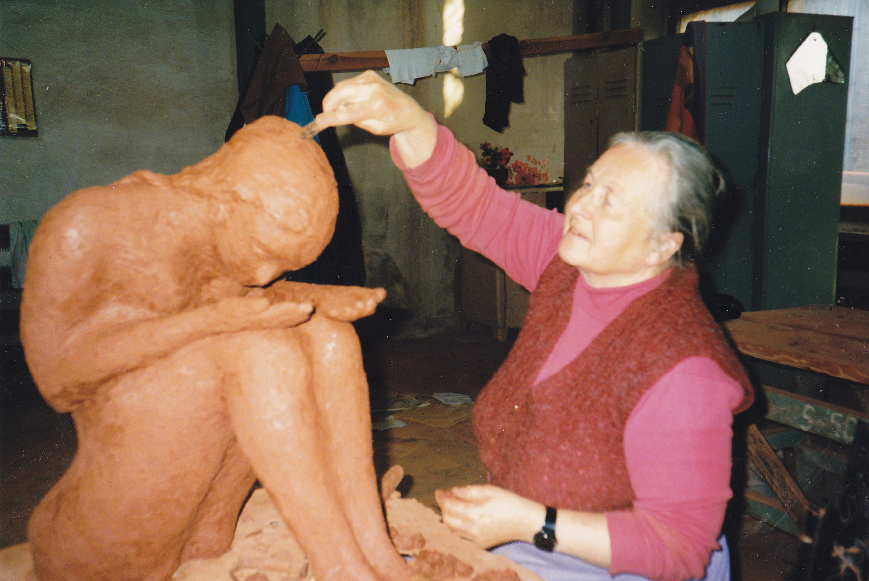 Katarzyna Piskorska sculturing